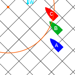 The image describes a common situation during a regatta: the three boats are overlapped and B and C are in the zone. Rule 18 applies. The zone is marked with the orange circle and each square of the grid has a boat lenght as his side